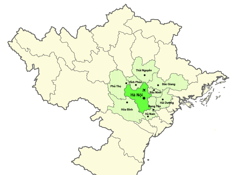 Map of Hanoi Capital Region consists of 9 provinces and Hanoi, according to Decision No. 768 / QĐ-TTg dated 06/05/2016 on Adjustment of Planning for Construction of Hanoi Capital Region to 2030 and vision to 2050 by the Prime Minister of Vietnam.